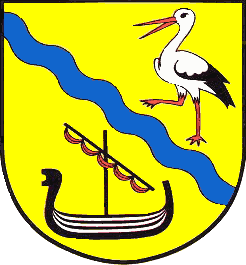 Coat of arms of the municipality Bollingstedt in Schleswig-Holstein, Germany